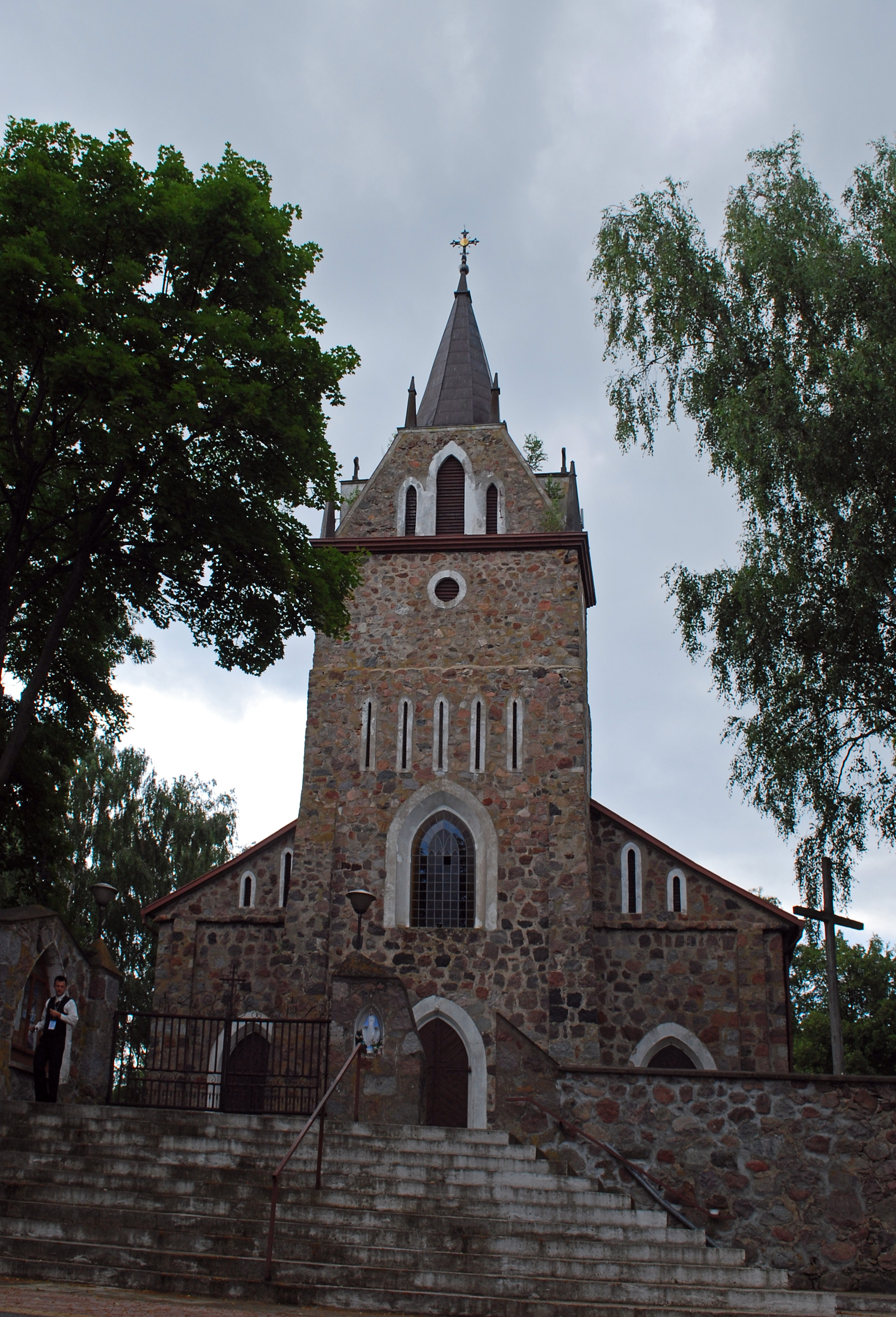 This photo from Podlaskie Voievodeship was taken during Polish Wikiexpedition 2009 set up by Wikimedia Polska Association. The making of this document was supported by Wikimedia Polska. Kościół w Majewie Kościelnym - front.